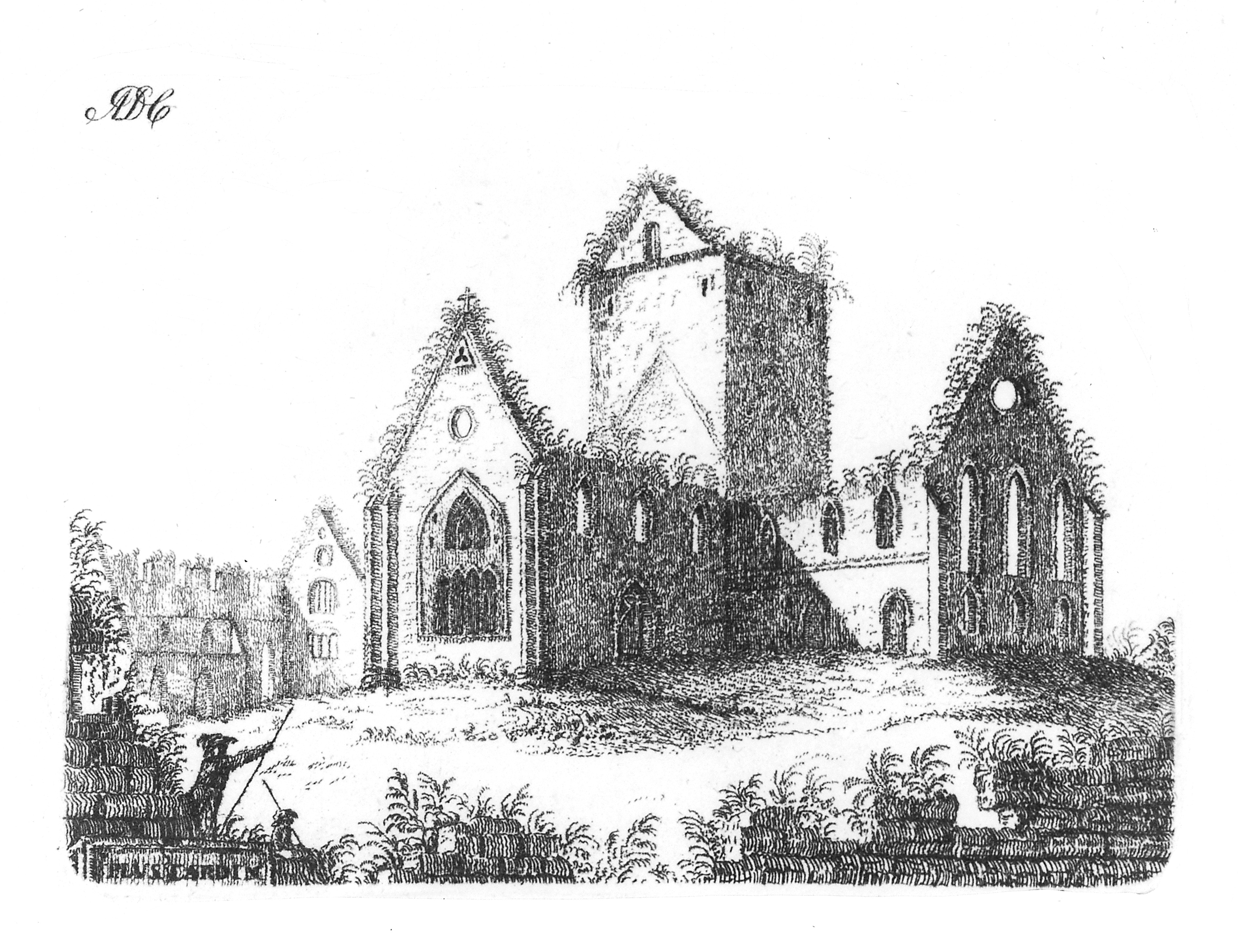 View of Pluscarden Priory near Elgin. From an 18th century publication, Picturesque Antiquities of Scotland. Wellcome Images Keywords: ecclesiology